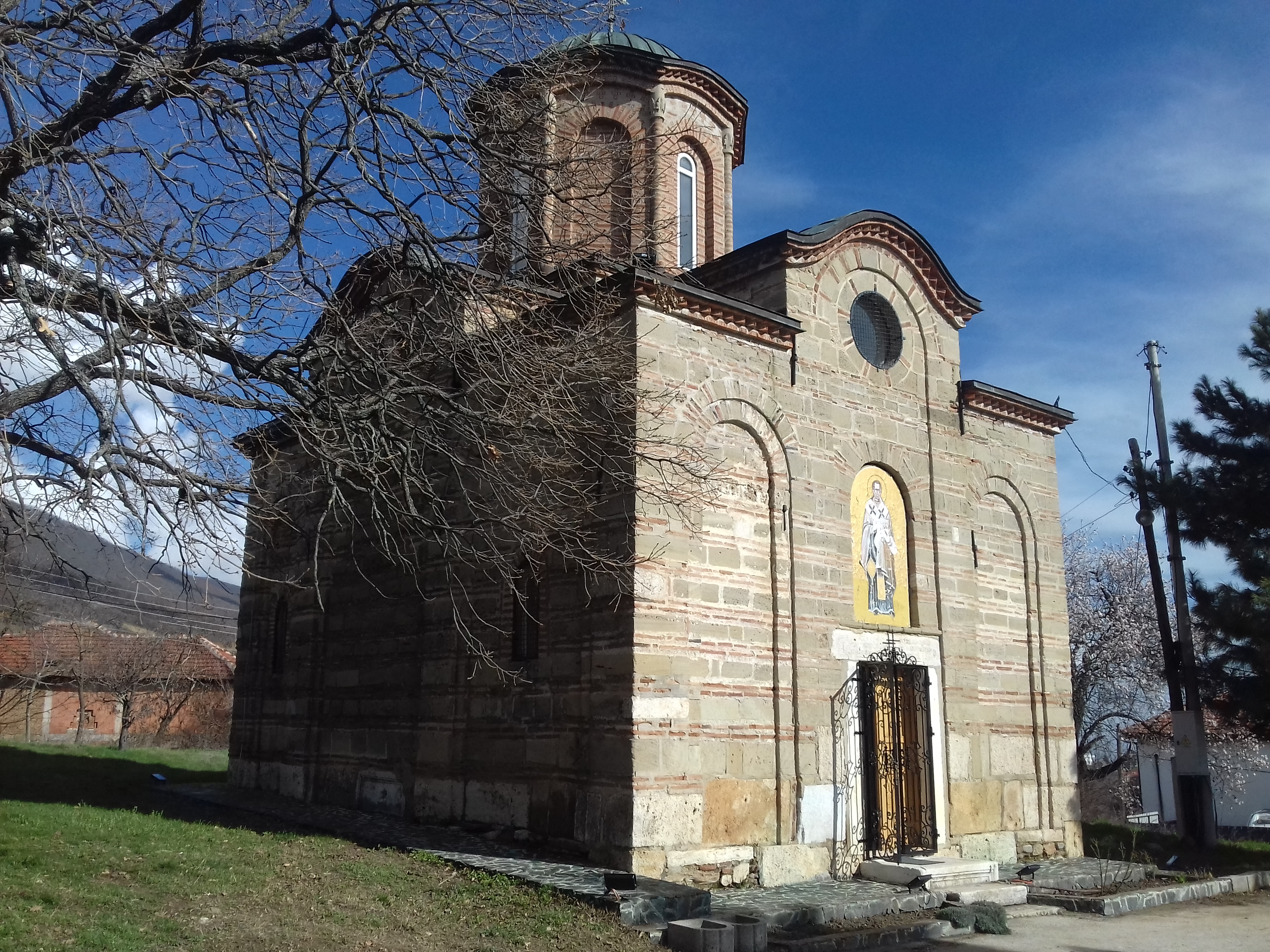 Medieval orthodox church of Saint Nicolas built in 1337, in the village of Ljuboten, near Skopje, Macedonia